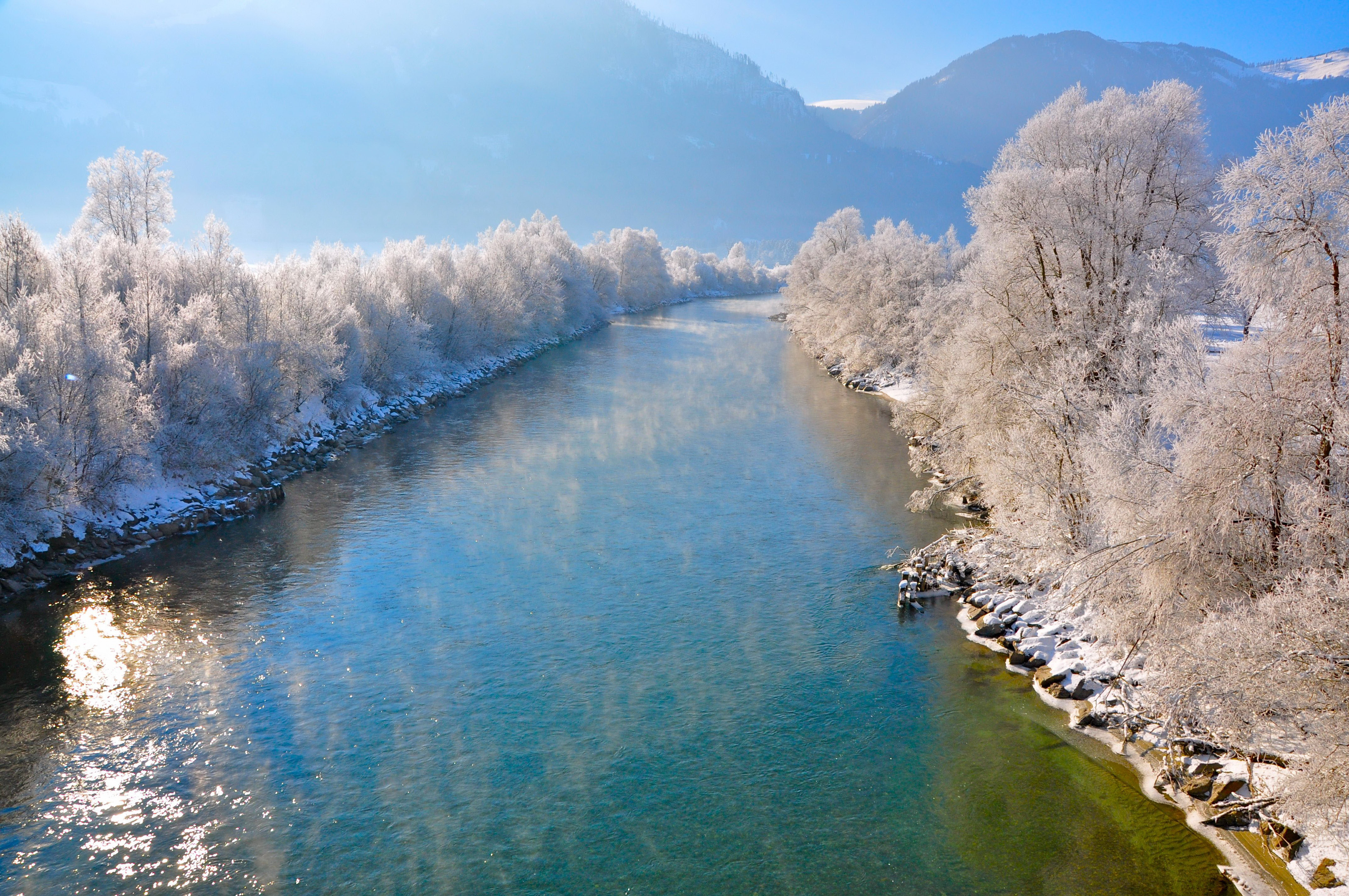 View from the Drava bridge upstream in southern direction, municipality Kleblach-Lind, district Spittal an der Drau, Carinthia, Austria